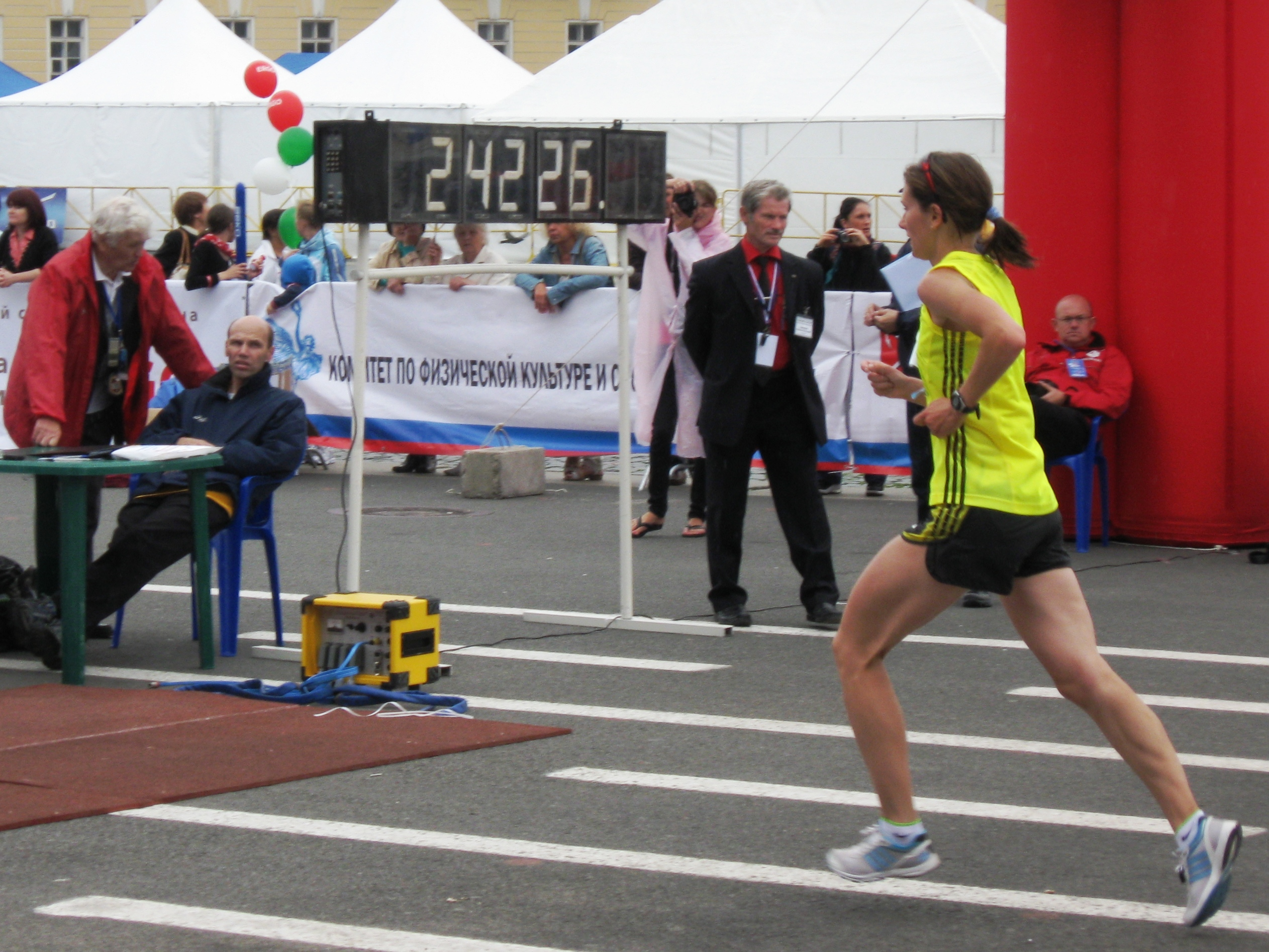 TRUBNIKOVA Vera from Novosibirsk finished at ХXI international Marathon "ERGO White Nights" St.Petersburg, Russia. June, 26, 2011